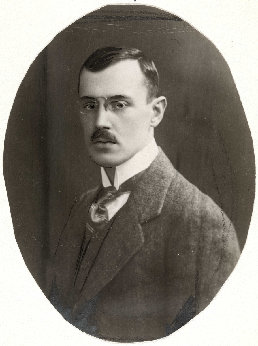 Norwegian chemist and CEO Carl Fredrik Holmboe